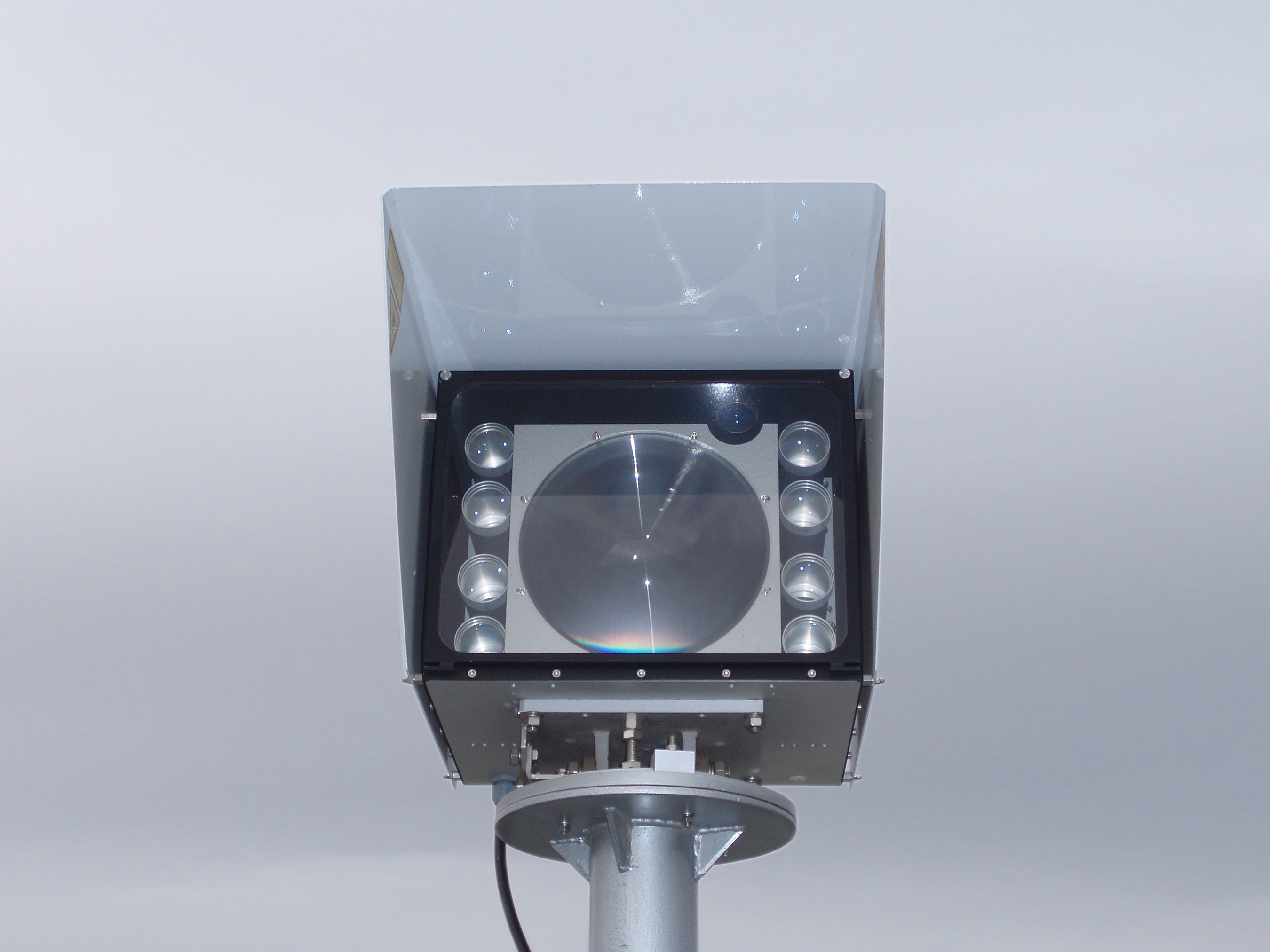 An 8-beam free space optics laser link, rated for 1Gbps at a distance of approximately 2km. The receptor is the large lens in the middle, the transmitters the smaller ones. To the top and right side a monocular for assisting the alignment of the two heads. Picture has been edited to remove distracting surrounding objects.